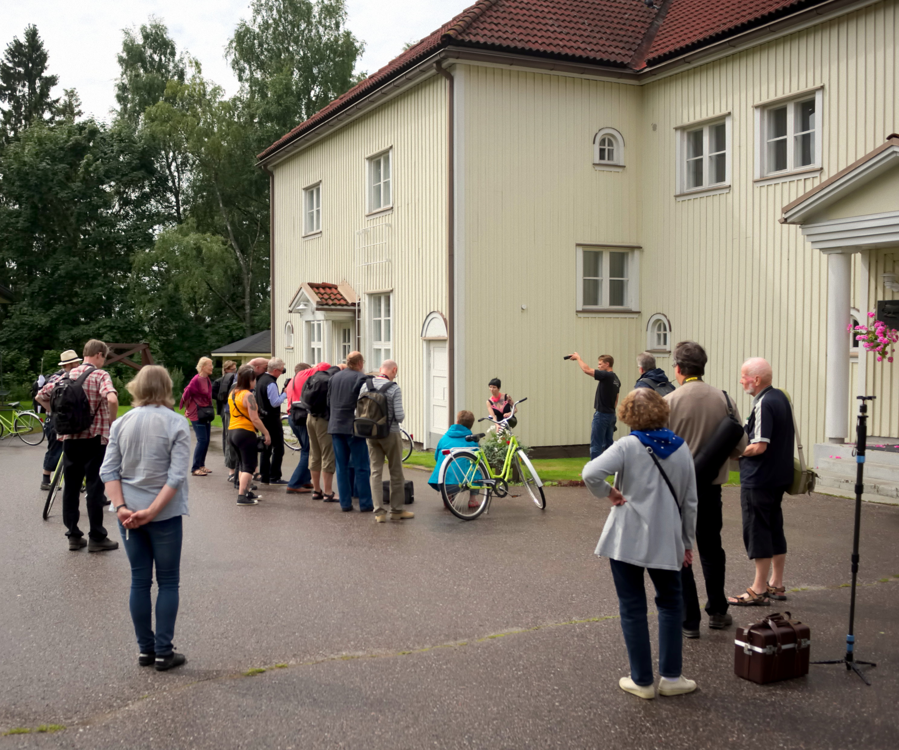 "Joutsenon taidekesä" photography camp 2015.